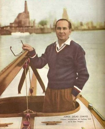 Jorge Salas Chávez. Yachting. Argentina. Silver Medal in 1960 Summer Olympics